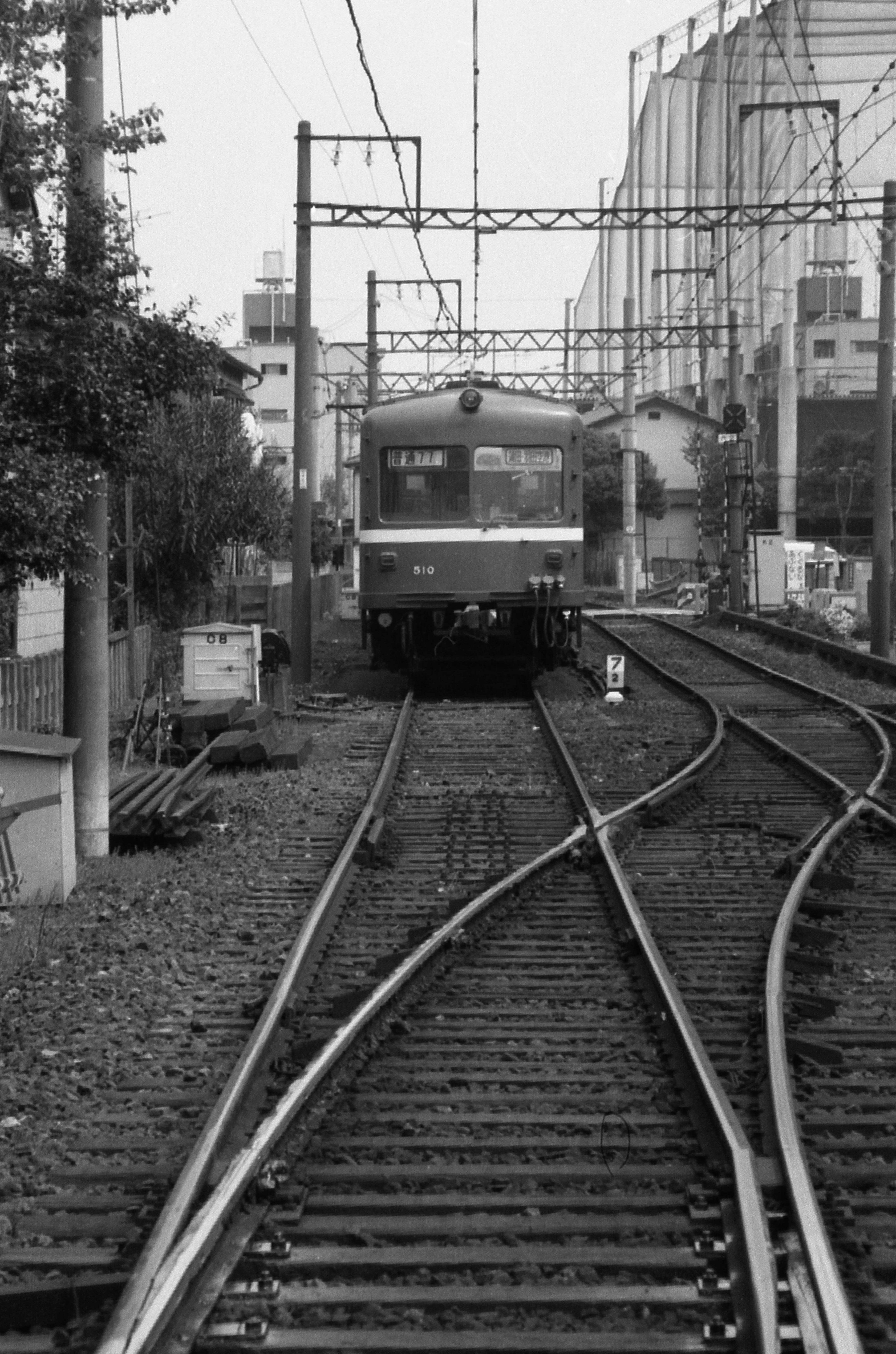 Anamori Inari siding, which exist before 1989